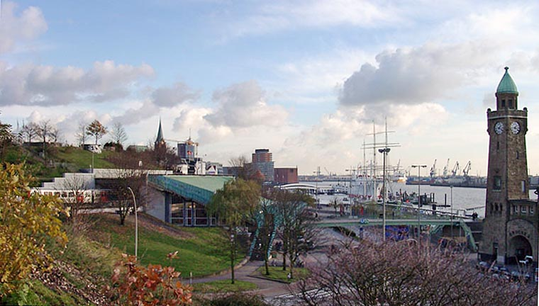 The Hamburg metro station "Landungsbrücken"